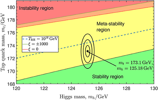 Depicts physical vaccum stability/metastability/instability regions as function of masses of higgs boson and top quark